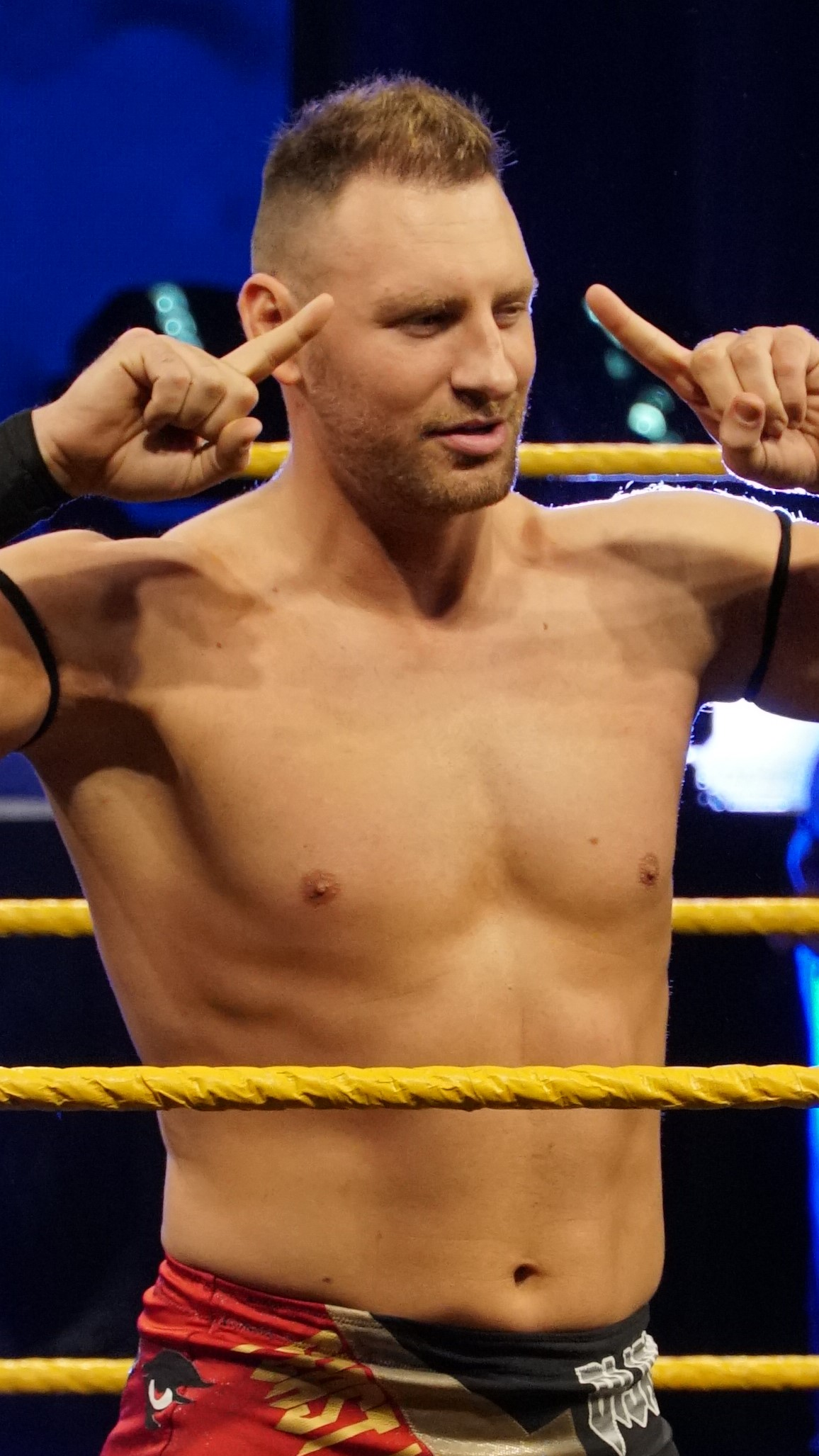 Chris Dijak prior to a match at WWE Axxess in April 2018.